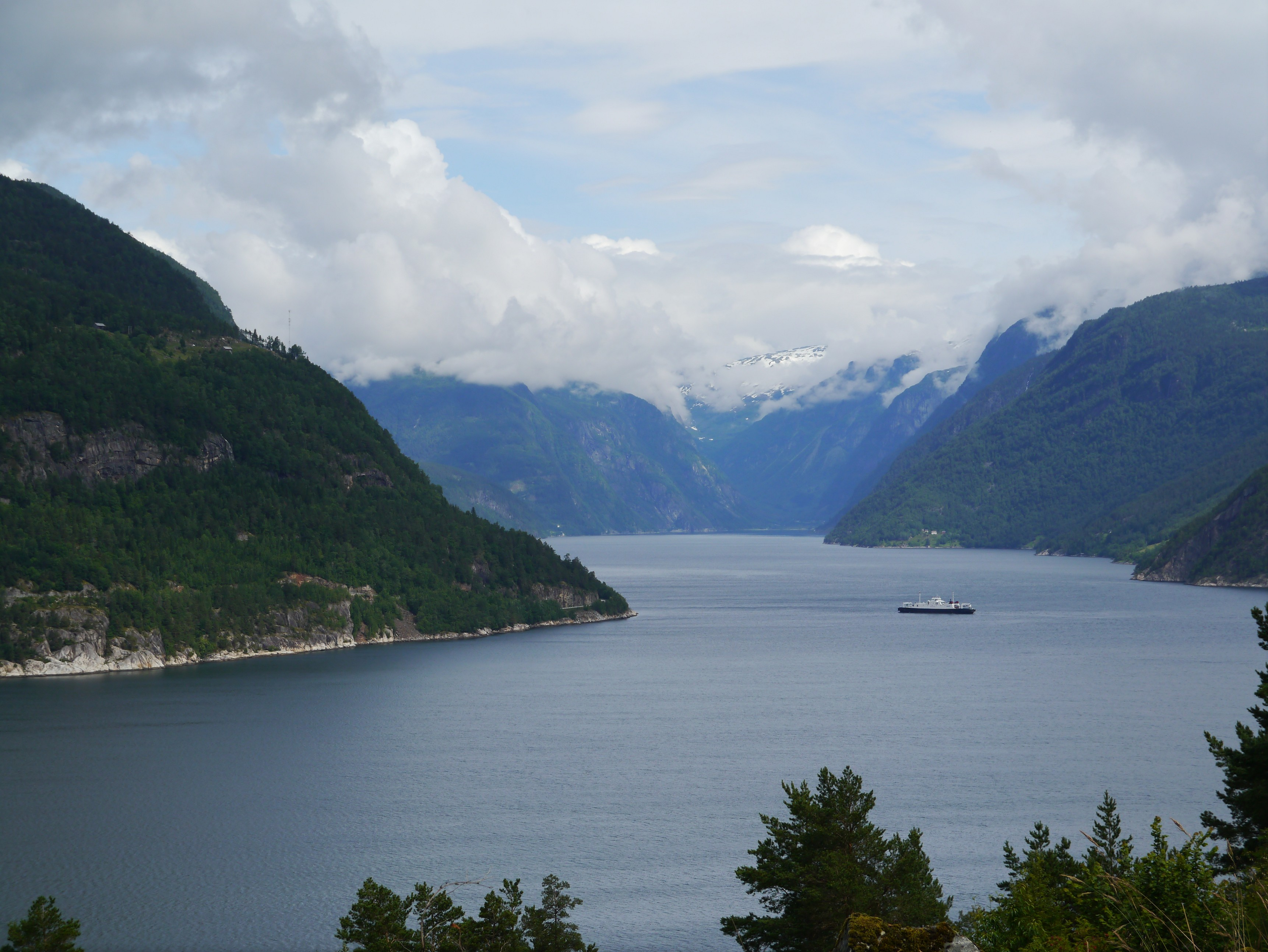 along Hardangerfjorden, Hordaland County, Western Norway